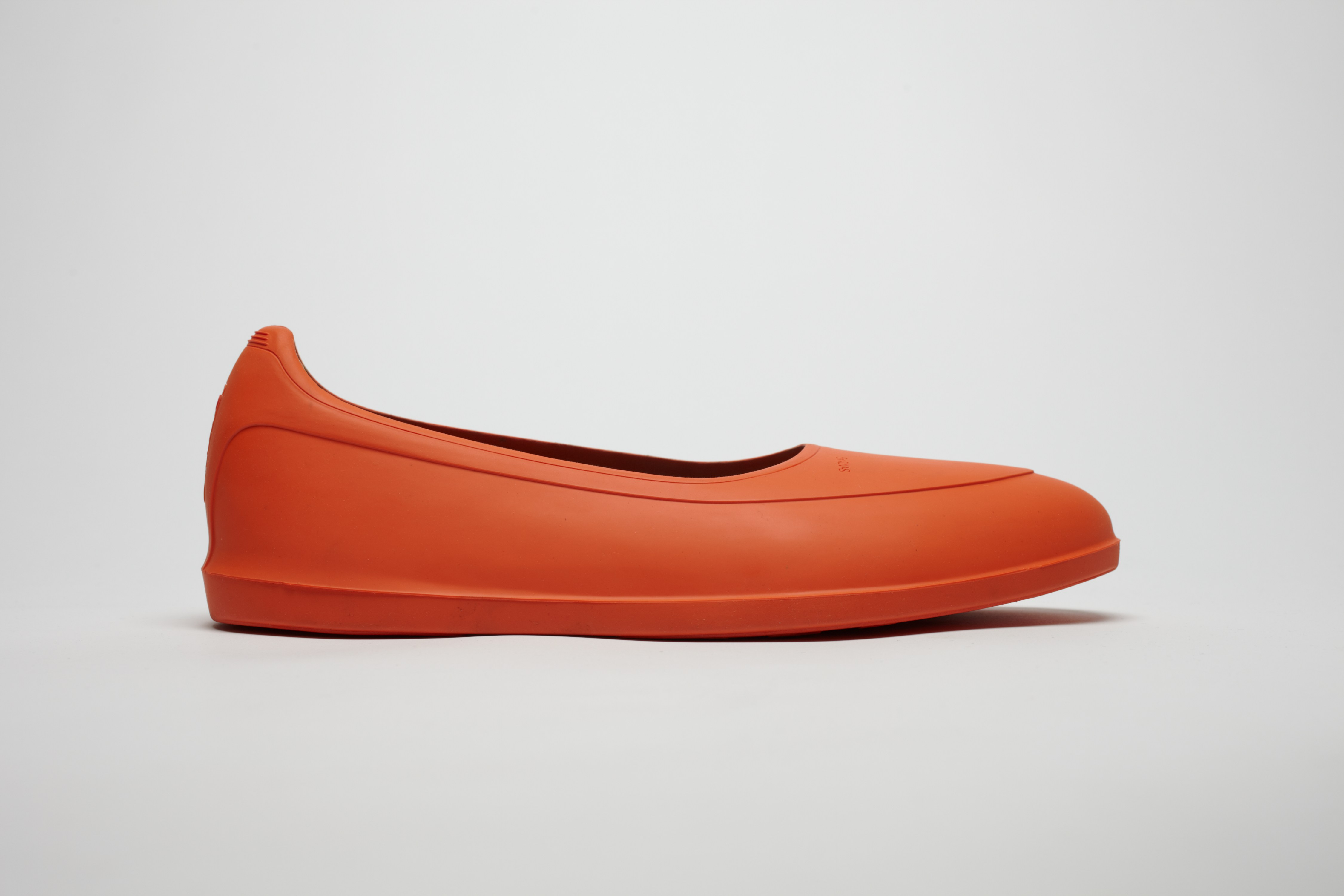 SWIMS Classic II